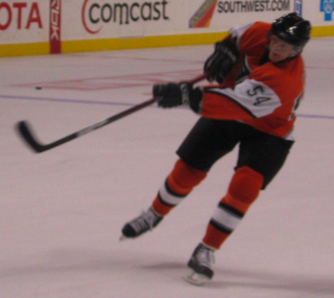 Taken before the Flyers' game against the Pittsburgh Penguins on January 13, 2007.